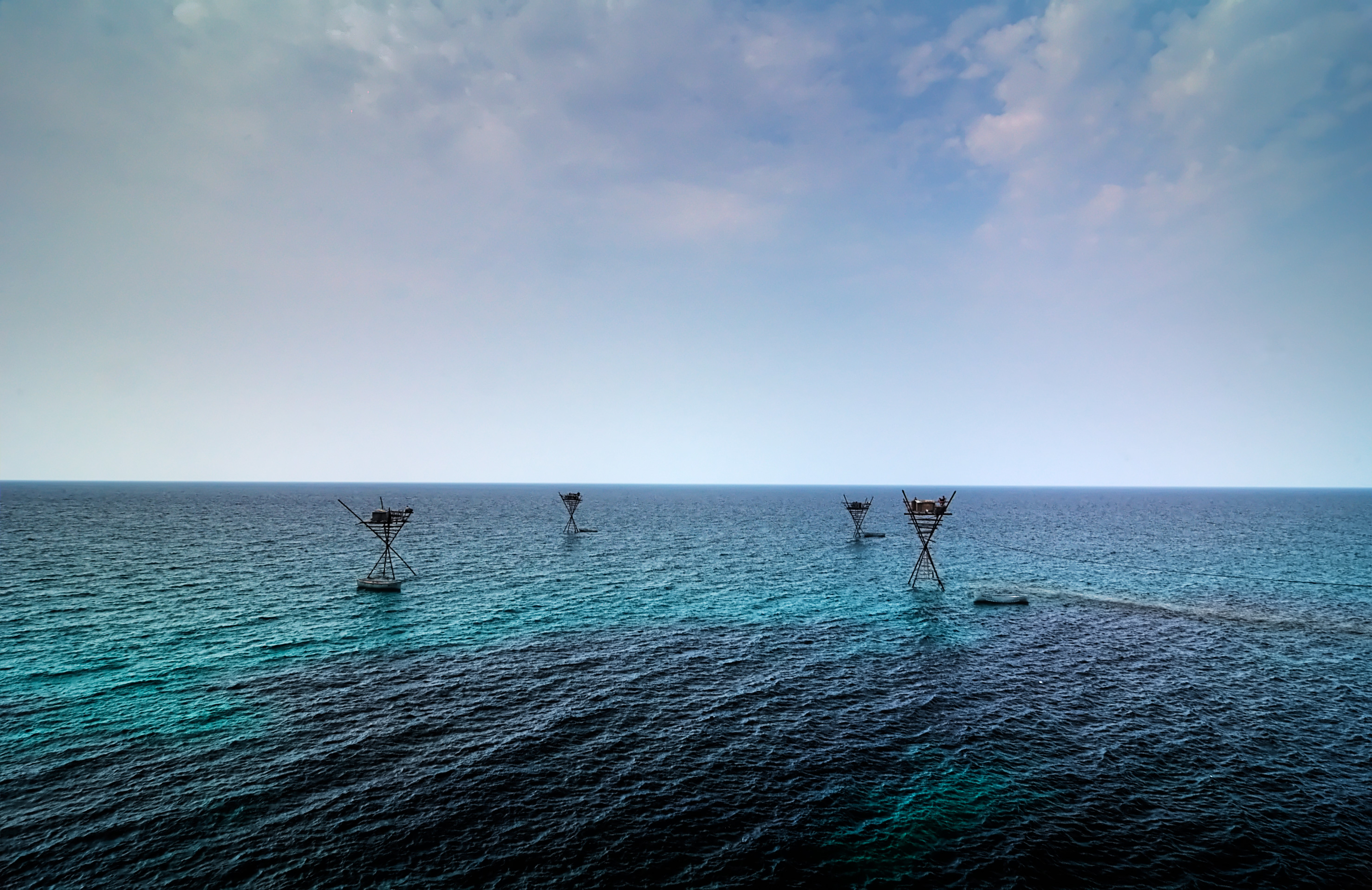 We saw this strange installations in the sea about 100-200 meters from the shore. What is this? Alien buildings, rigs, watchtowers or huts?